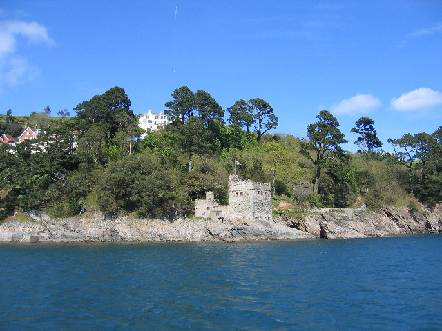 Kingswear Castle was built between 1491 - 1502, as a coastal artillery tower for use with heavy cannon. It is located in Devon, England.